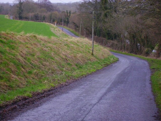 Barton Stacey - The Road to Bransbury This winding road leads to the hamlet of Bransbury.